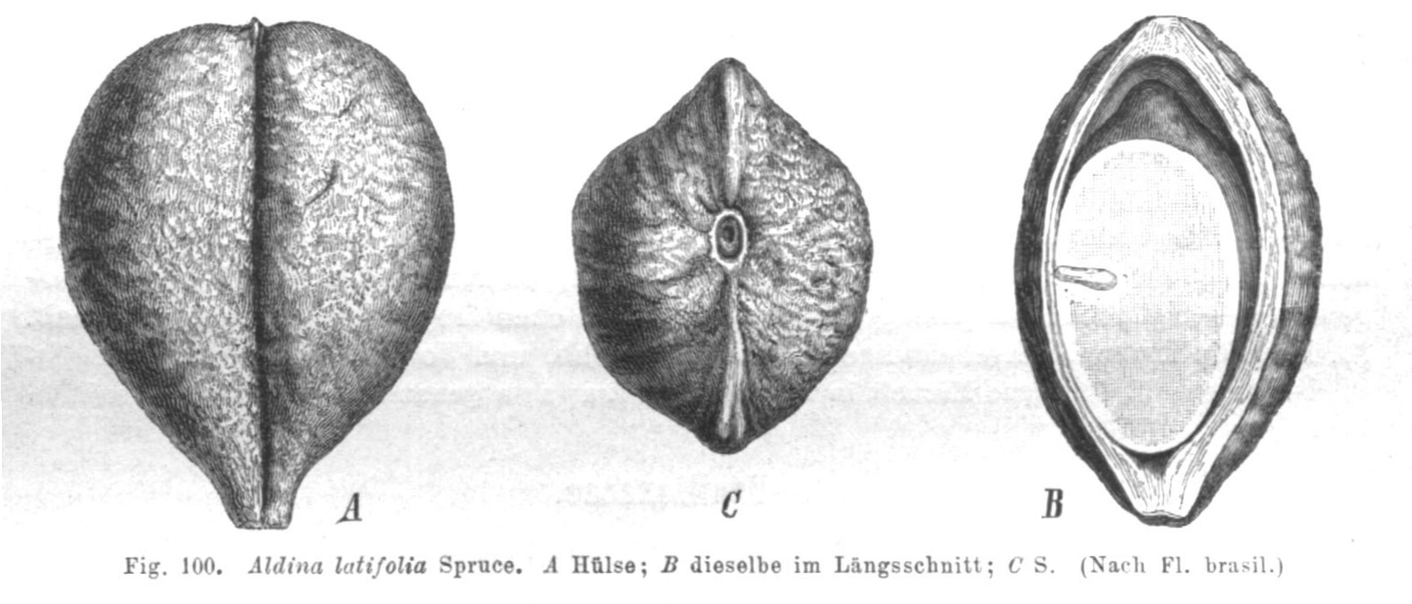 Illustration from book